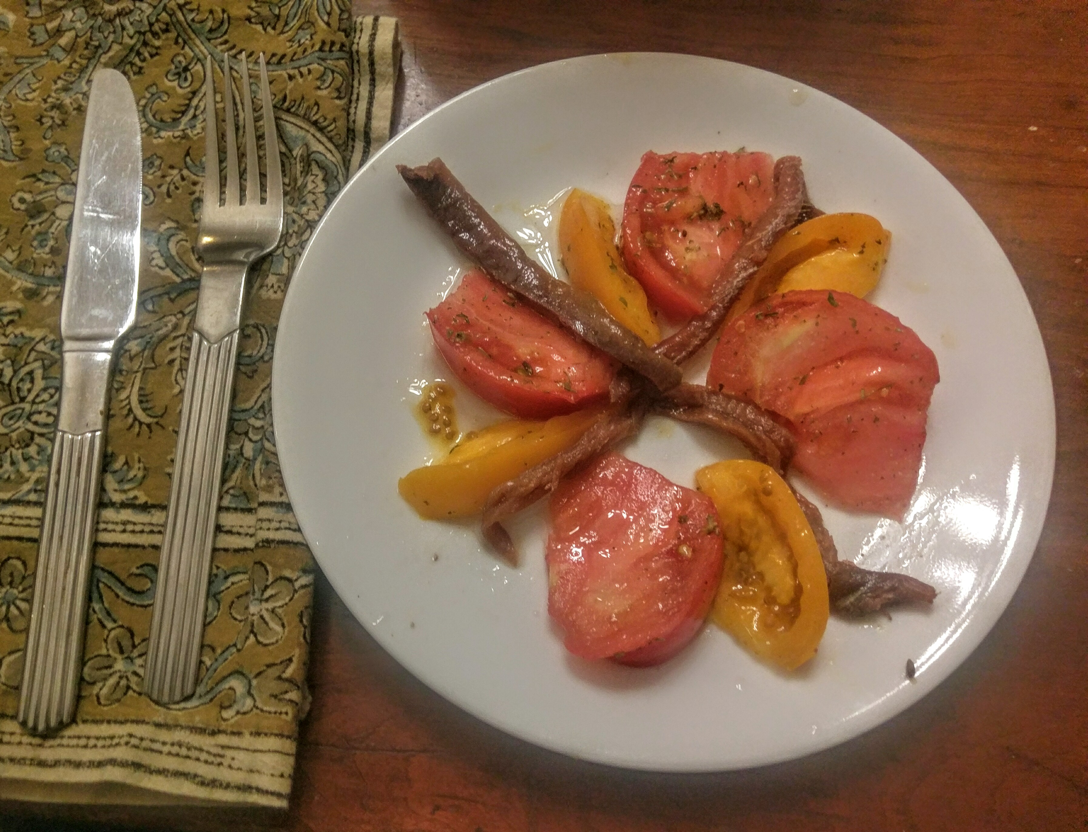 A simple salade nicoise as served in the 19th century, made of tomatoes, anchovies and olive oil. Photo by Jim Heaphy.